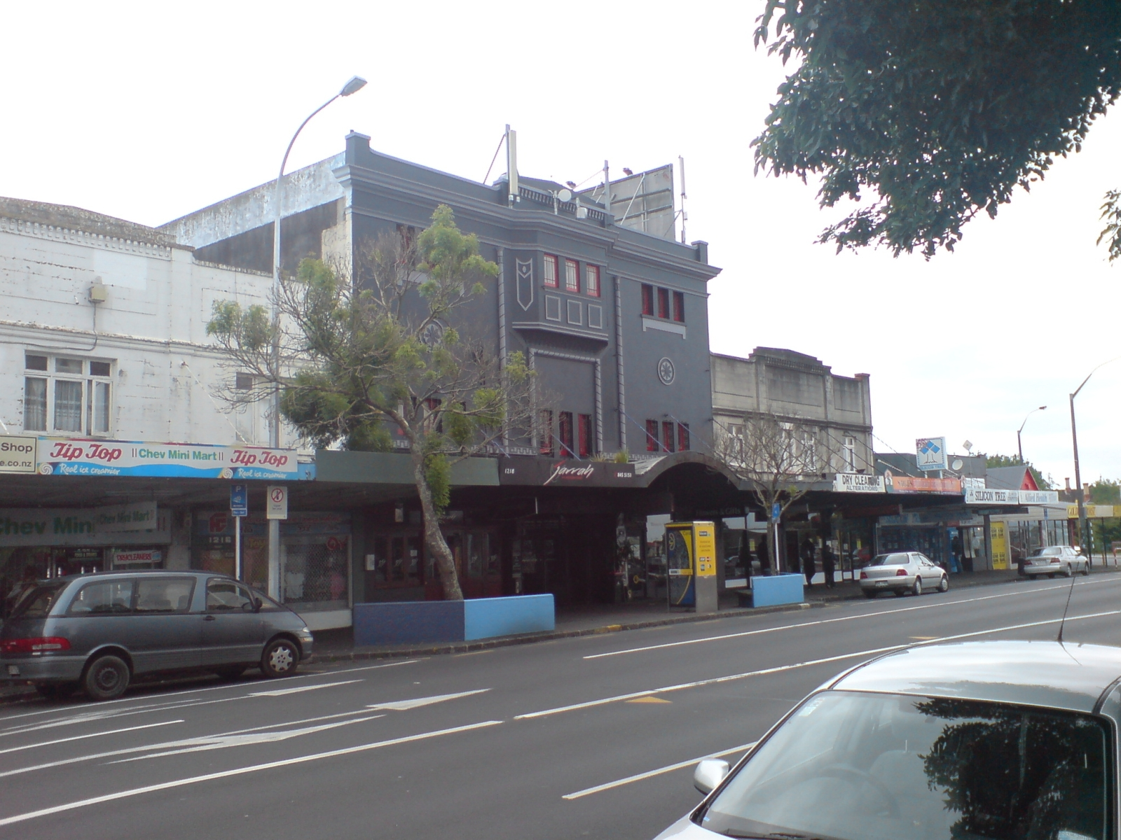 A former cinema (the 'Ambassador Cinema') in Point Chevalier in Auckland City, New Zealand.